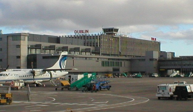 Photograph of Dublin Airport, viewed from an exterior aircraft boarding area. Taken by GTD Aquitaine on February 20, 2004